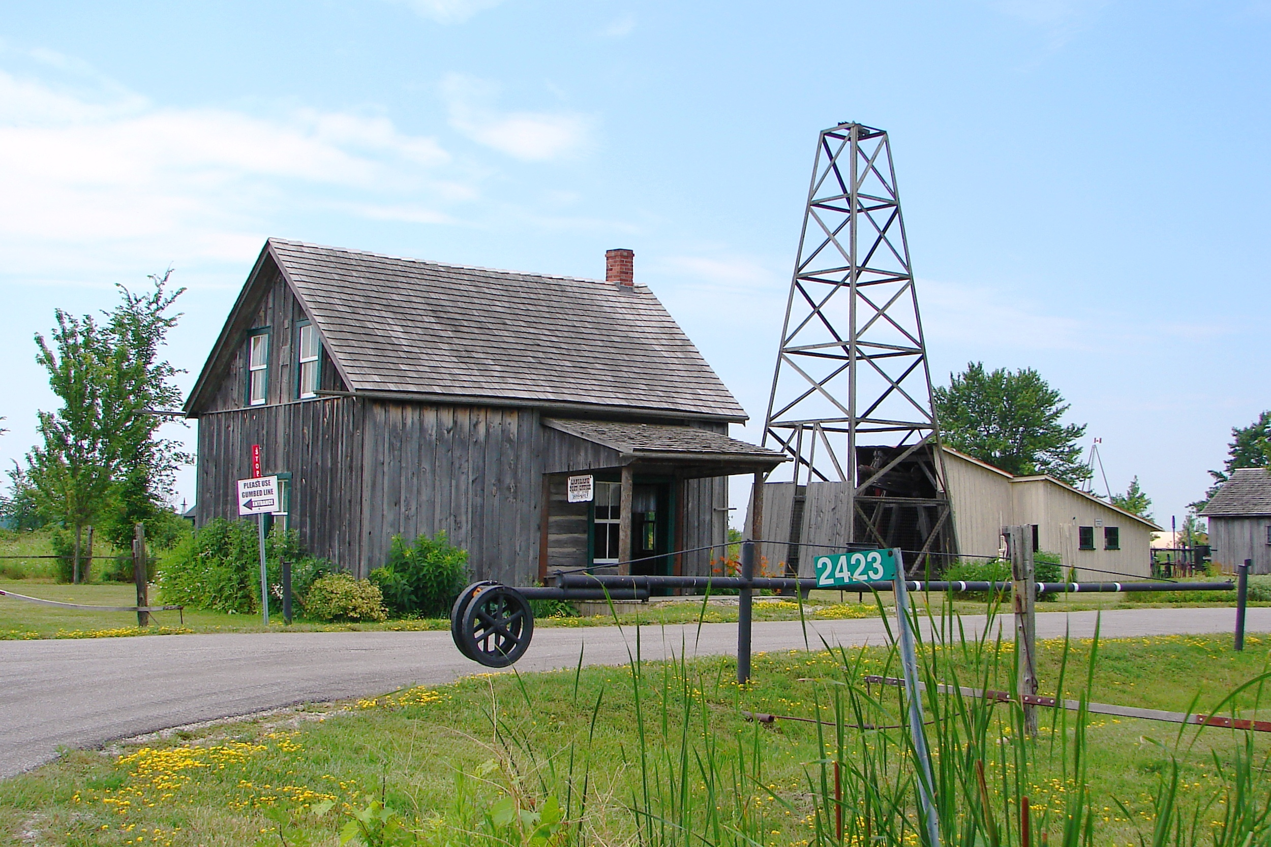 Oil Museum of Canada in Oil Springs, Ontario, Canada; The grey building is the Langbank Post Office, moved to this location from Dawn township in 1975